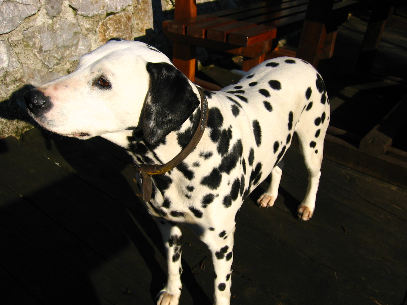 Dalmatian dog. Picture taken in April 2006, Croatia.